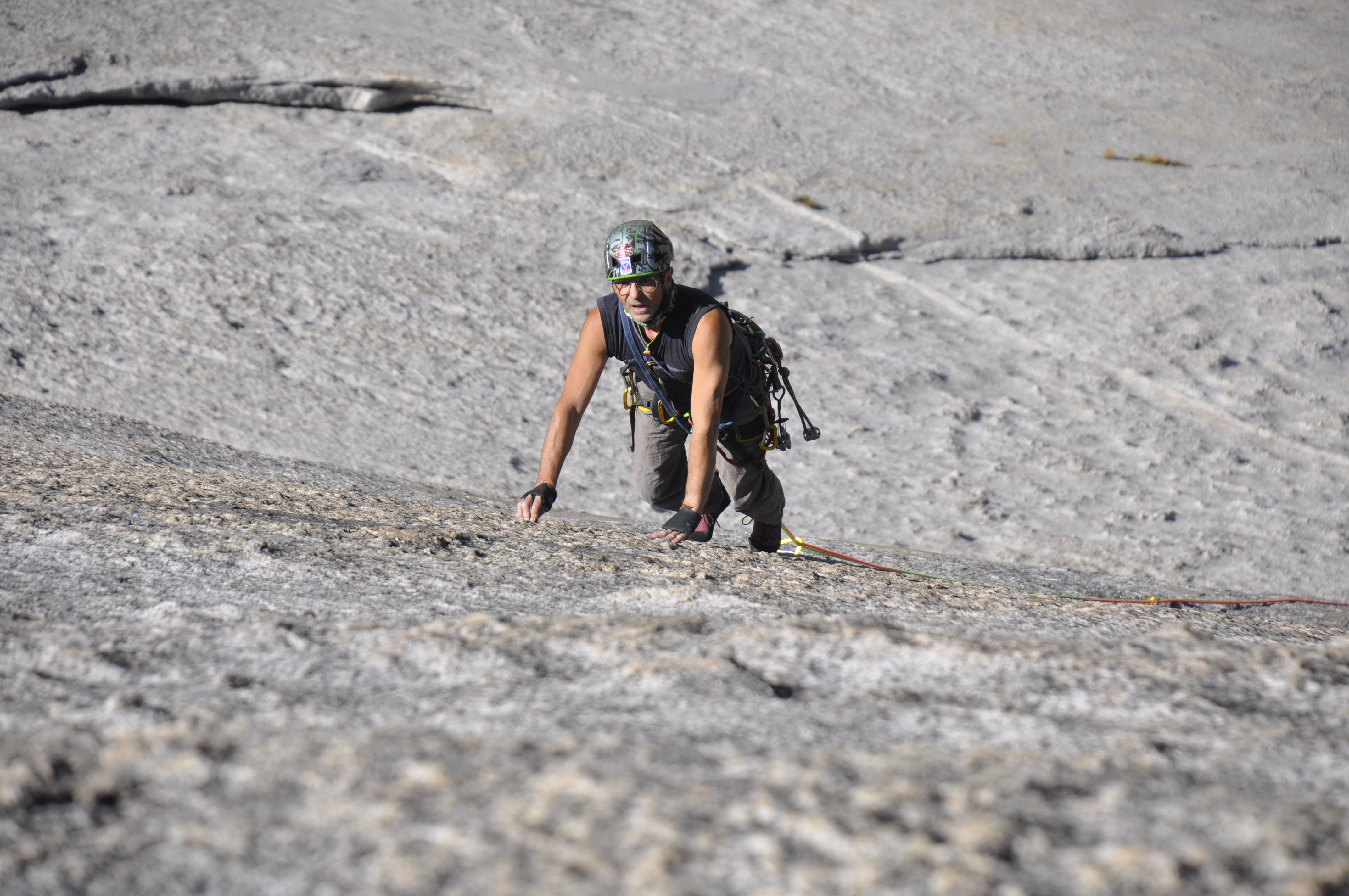 Pywiack Dome - Climber on 2nd pitch of Zee Tree, a 5 pitch YDS 5.7)[1]